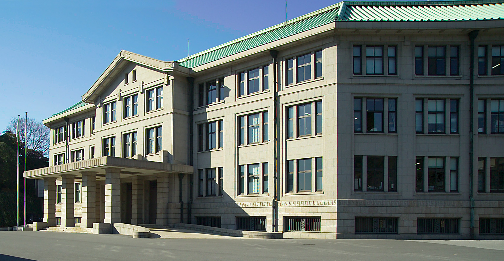 Imperial Household Agency (Kunaicho) building on the grounds of the Kokyo Tokyo Kanto region Honshu Japan I took this photo and contribute my rights in the file to the public domain; individuals and organizations retain rights to images in it.